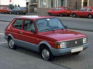 A SEAT Fura caught in the street. Image released to public domain.